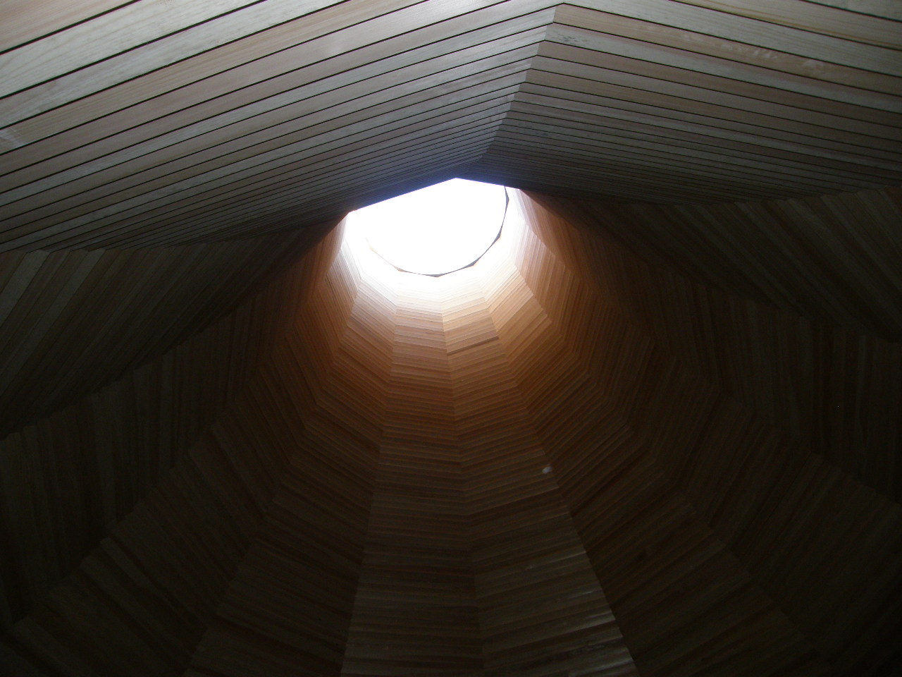 Rokko-shidare 六甲枝垂れ-Rokko garden terrace